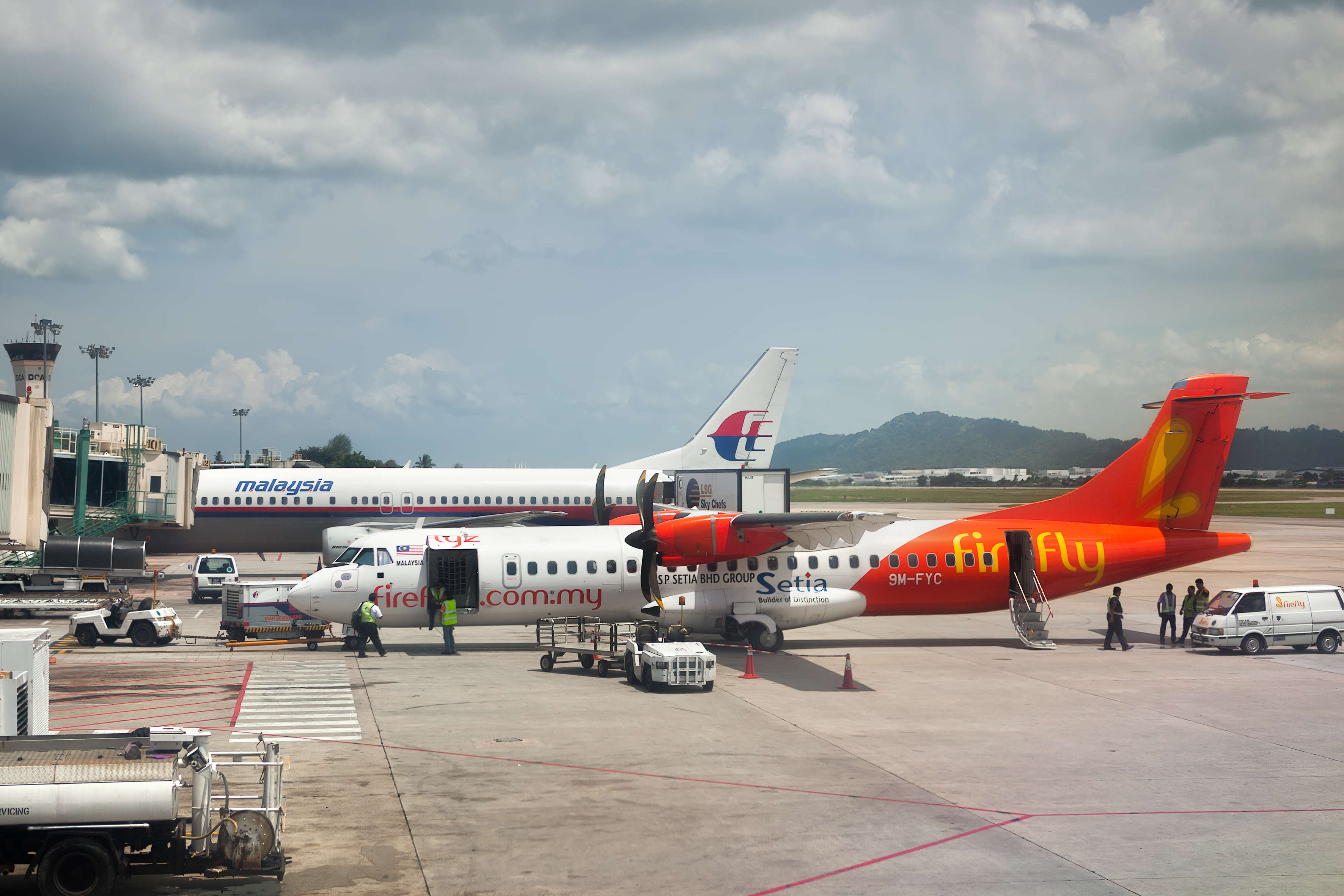 ATR 72-500 of Firefly air company standing at Penang international airport